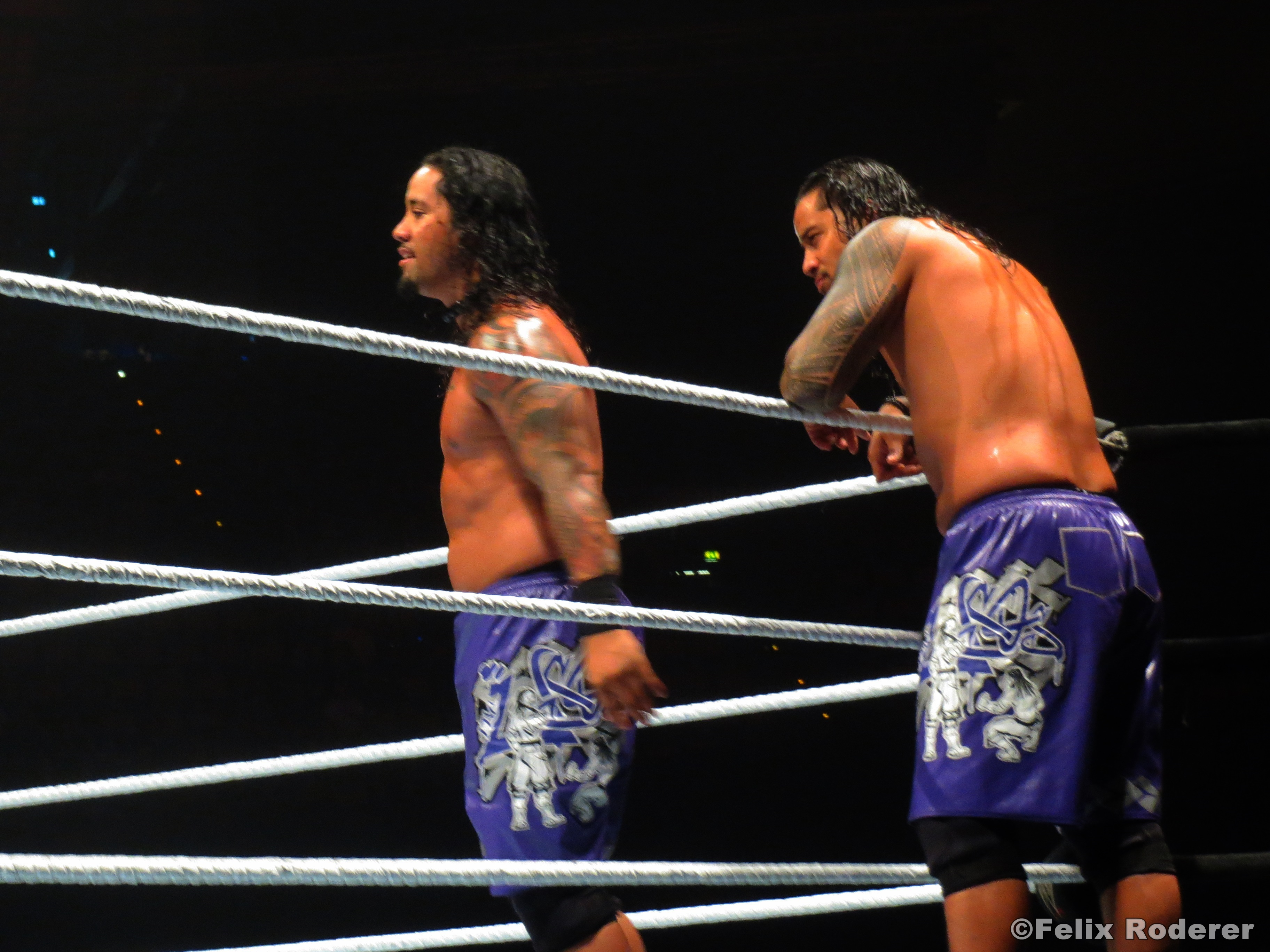 The Usos at an WWE Live Event in Munich in November 2013